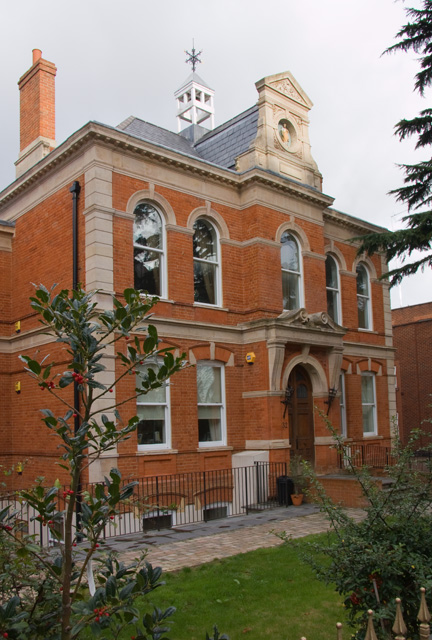 Former East Barnet Urban District town hall. 32 Station Road, New Barnet.